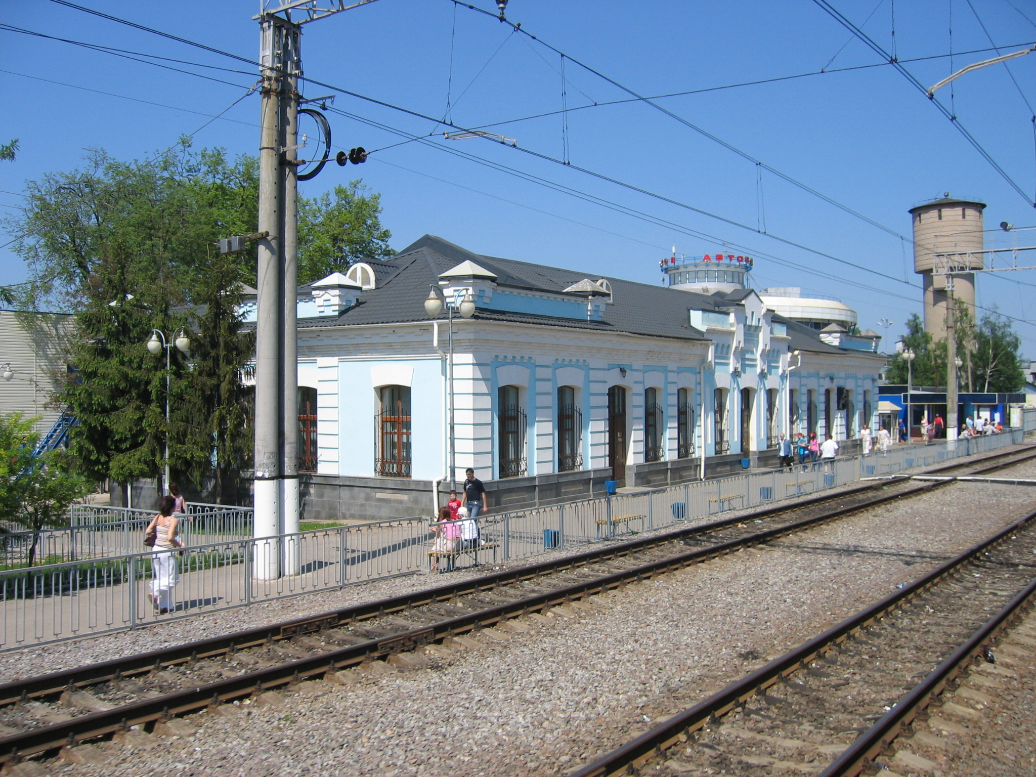 Chekhov train station, Moscow Oblast